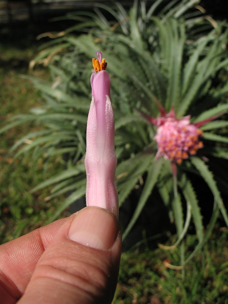 Ochagavia carnea in cultivation at the Botanical Garden of Heidelberg, Germany.